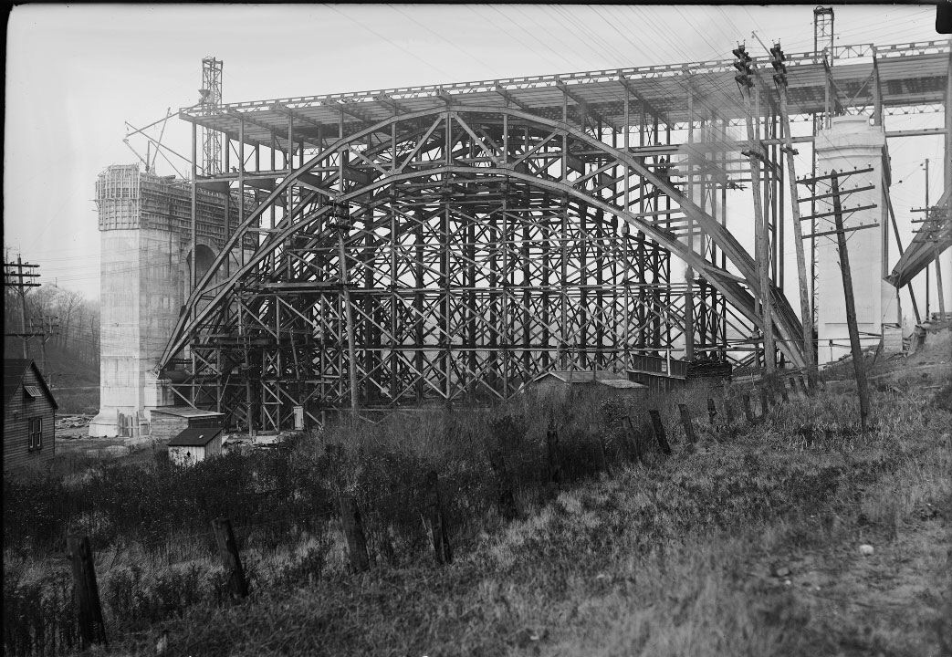 Prince Edward Viaduct under construction. Toronto, Canada.